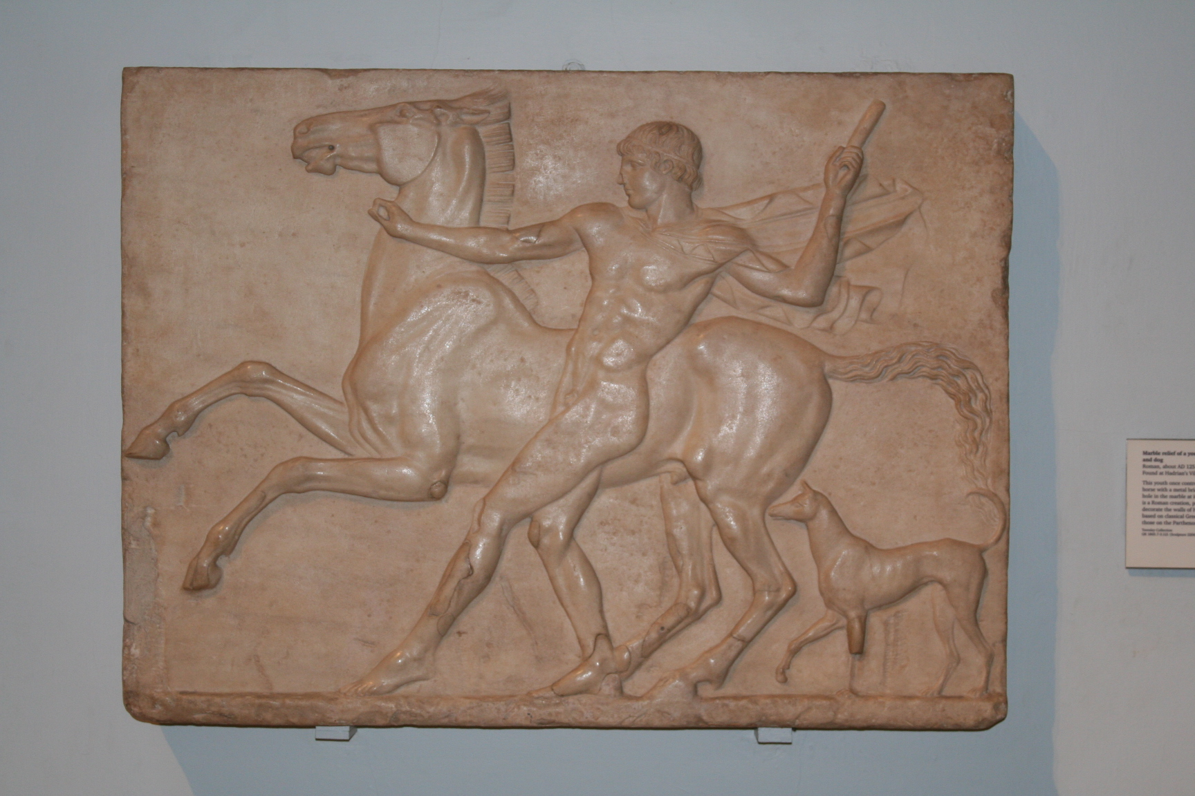 Youth with his dog, mastering a horse with a metal bridle (now lost). Marble relief, Roman artwork inspired by Greek classical models, ca. 125 AD. From the Villa Adriana, near Tivoli. Roman gallery, British Museum (London).